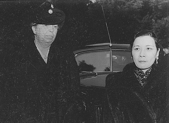 Eleanor Roosevelt and Mme Chiang Kai,shek, 02/22/1943